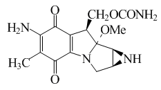 Mitomycin C structure